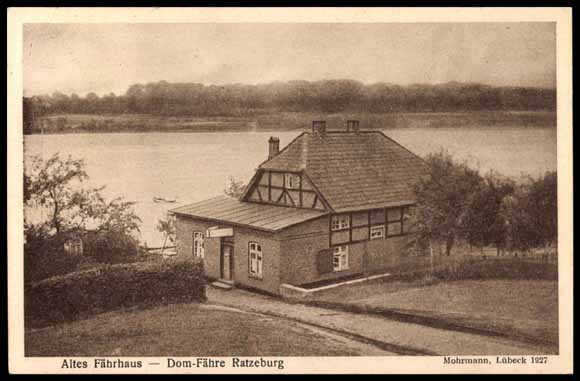 Domfähre Ratzeburg postcard by Robert Mohrmann